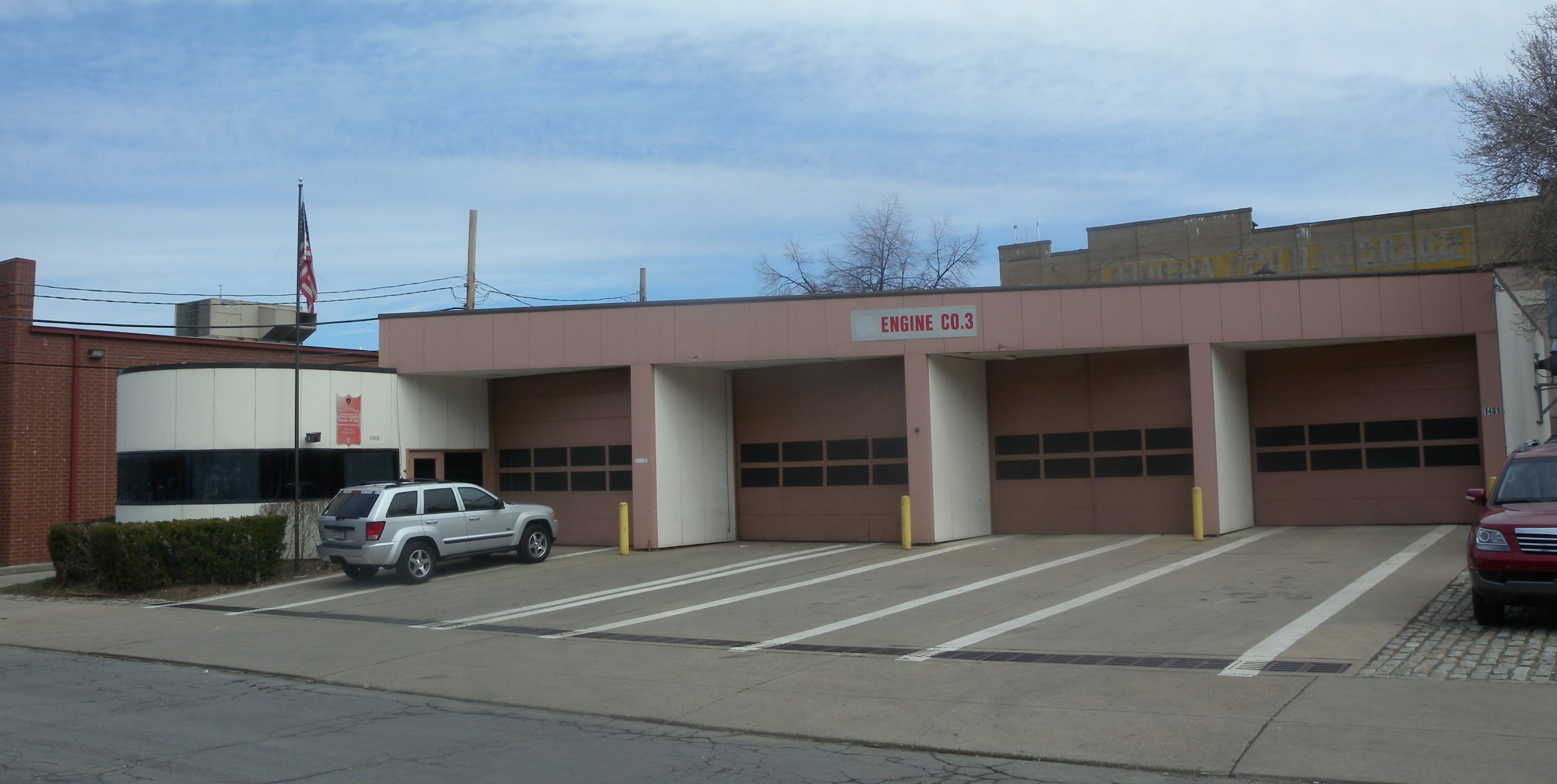 Looking northeast at Fire Engine Company 3 house on a partly sunny midday.